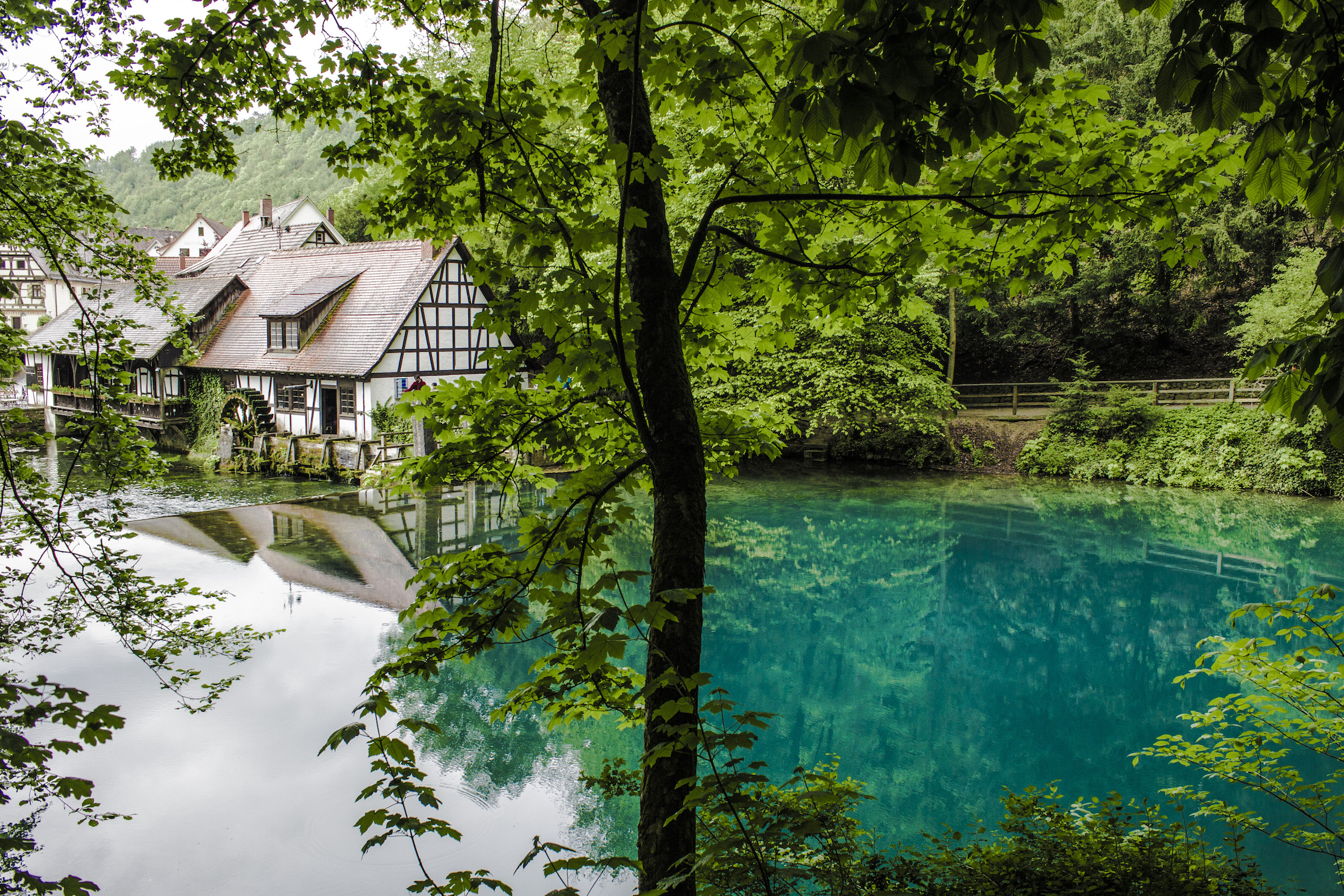 The beauty and calmness of the sight is captured in this shot.